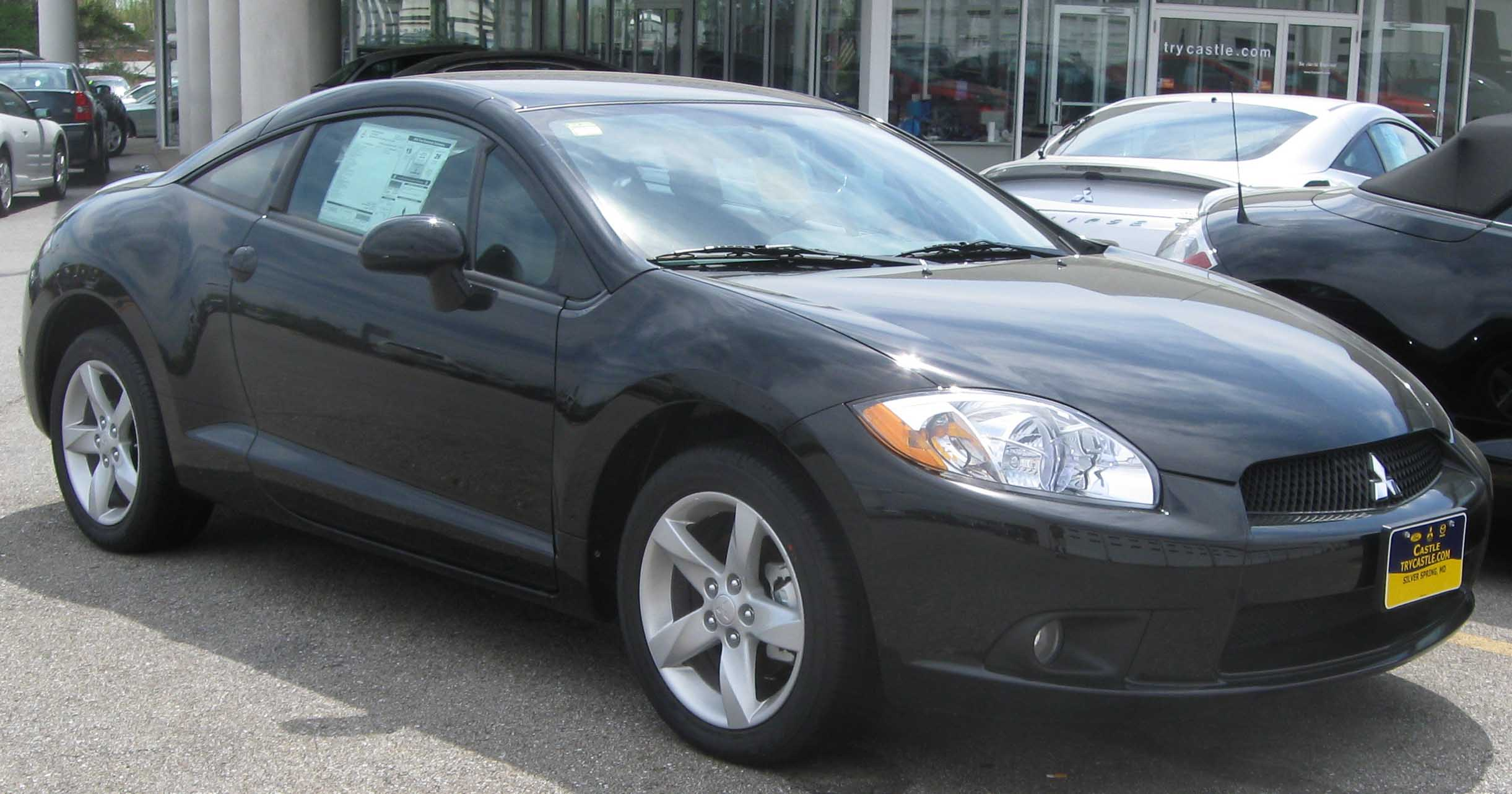 2009 Mitusbishi Eclipse photographed in Silver Spring, Maryland, USA.